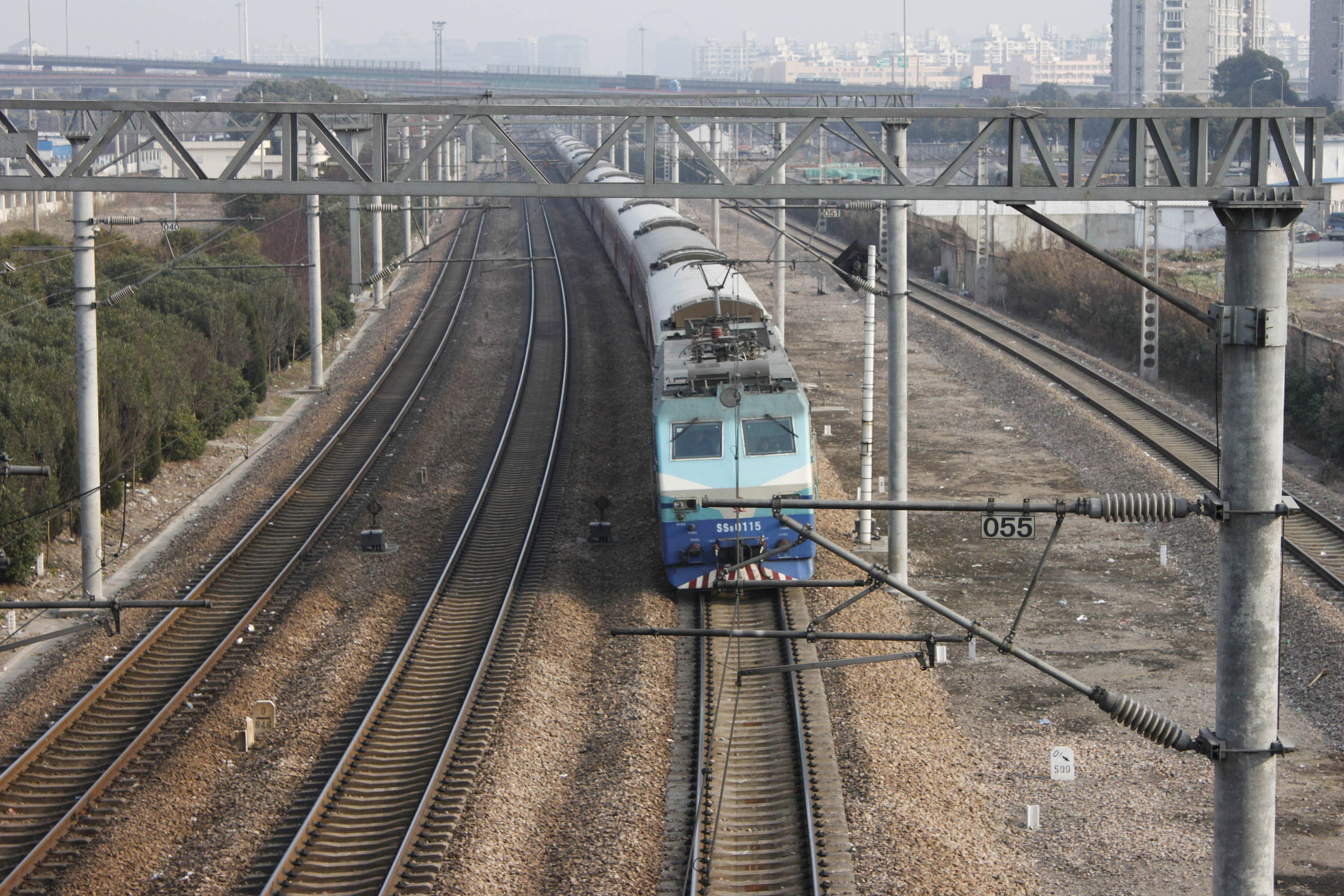 SS8 Locomotive passing Xinzhuang Station